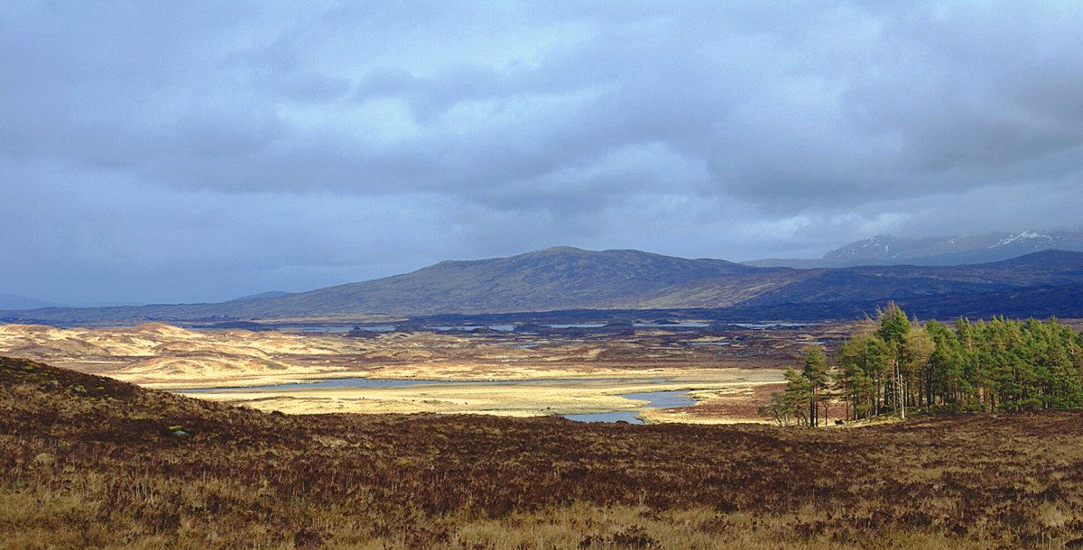 The sun breaks partially through the clouds in a rainy day on the outskirt of Rannoch Moor in late April 2008 on West Highland Way on the way from Bridge of Orchy to Kingshouse